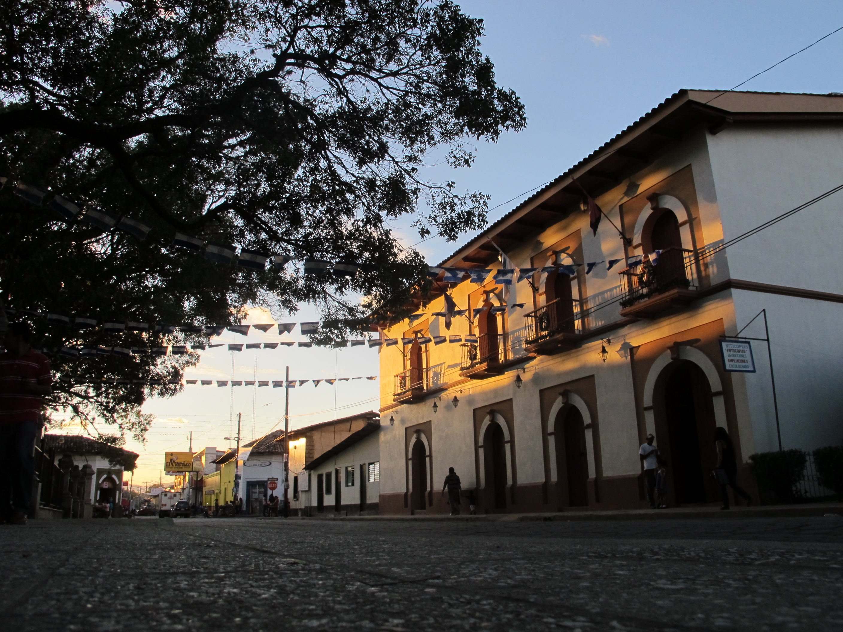 Ocotal Street